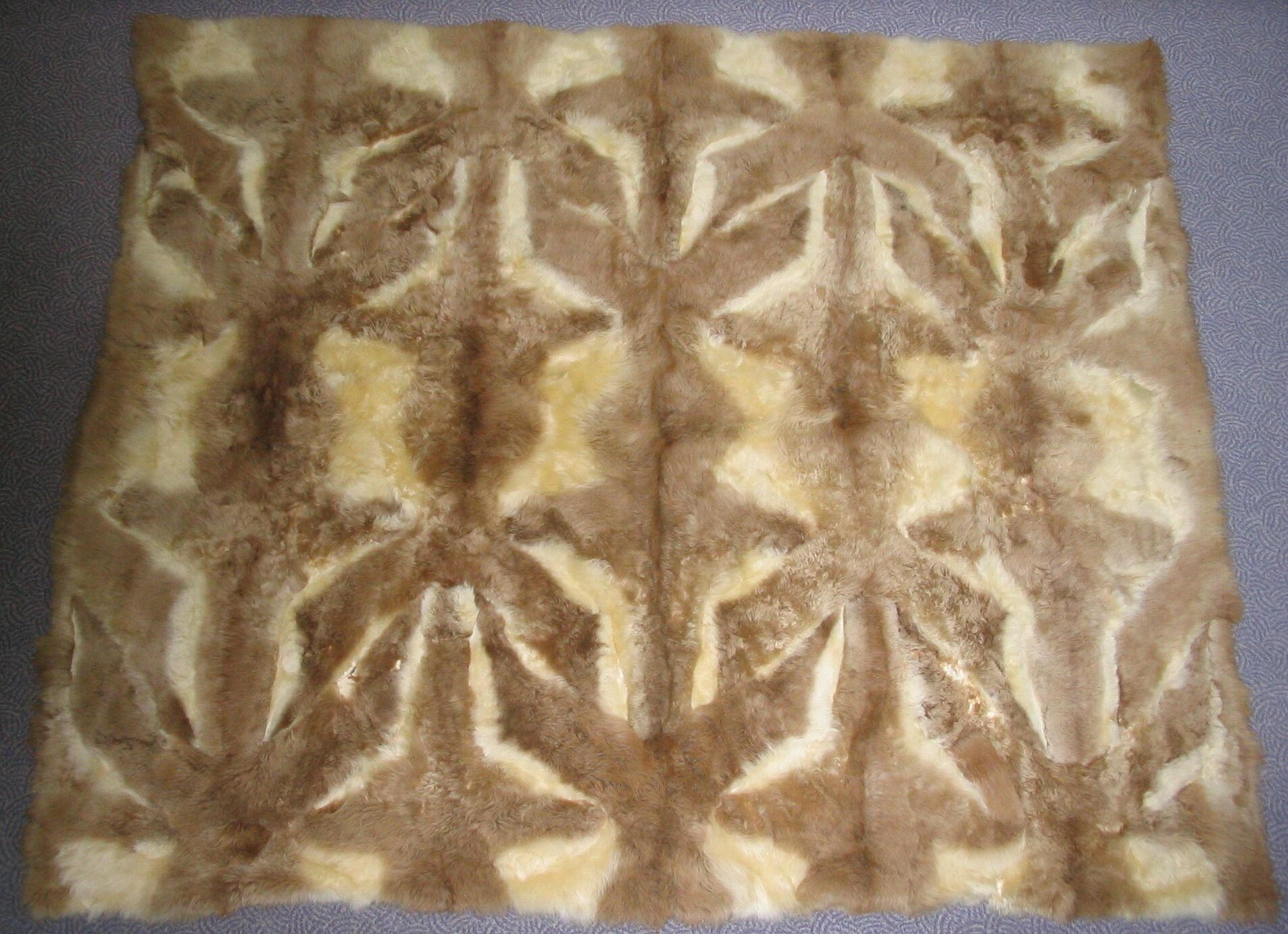 Guanaco fur plate